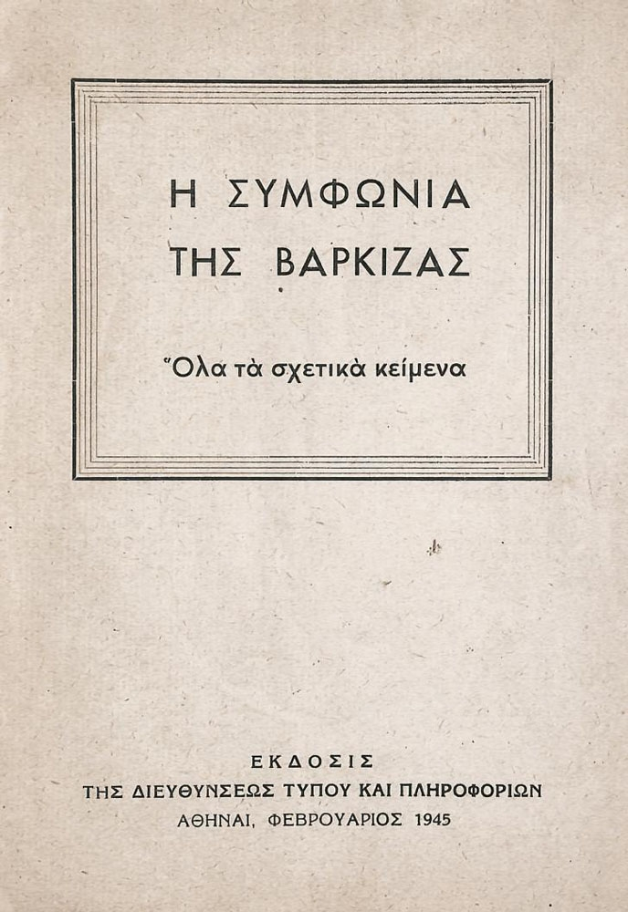 The Treaty of Varkiza. Front cover of the official Greek edition, 31 pages, Feb 1945. The Treaty was signed between the Greek Government and the representatives of EAM-ELAS, following the latter's defeat during the clashes of Dec 1944 - Jan 1945 in Athens, Greece.